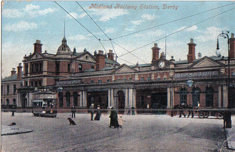 Derby Midland railway station from a postcard c.1910 in the Valentines Series.